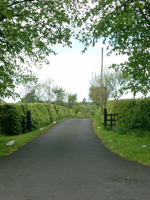 Approach to Beanscroft.